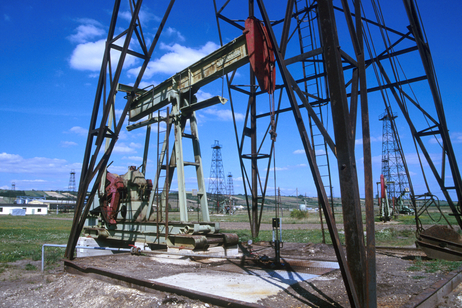 Derricks at the former Van Sickle oil field near St. Ulrich/Zaya in Lower Austria